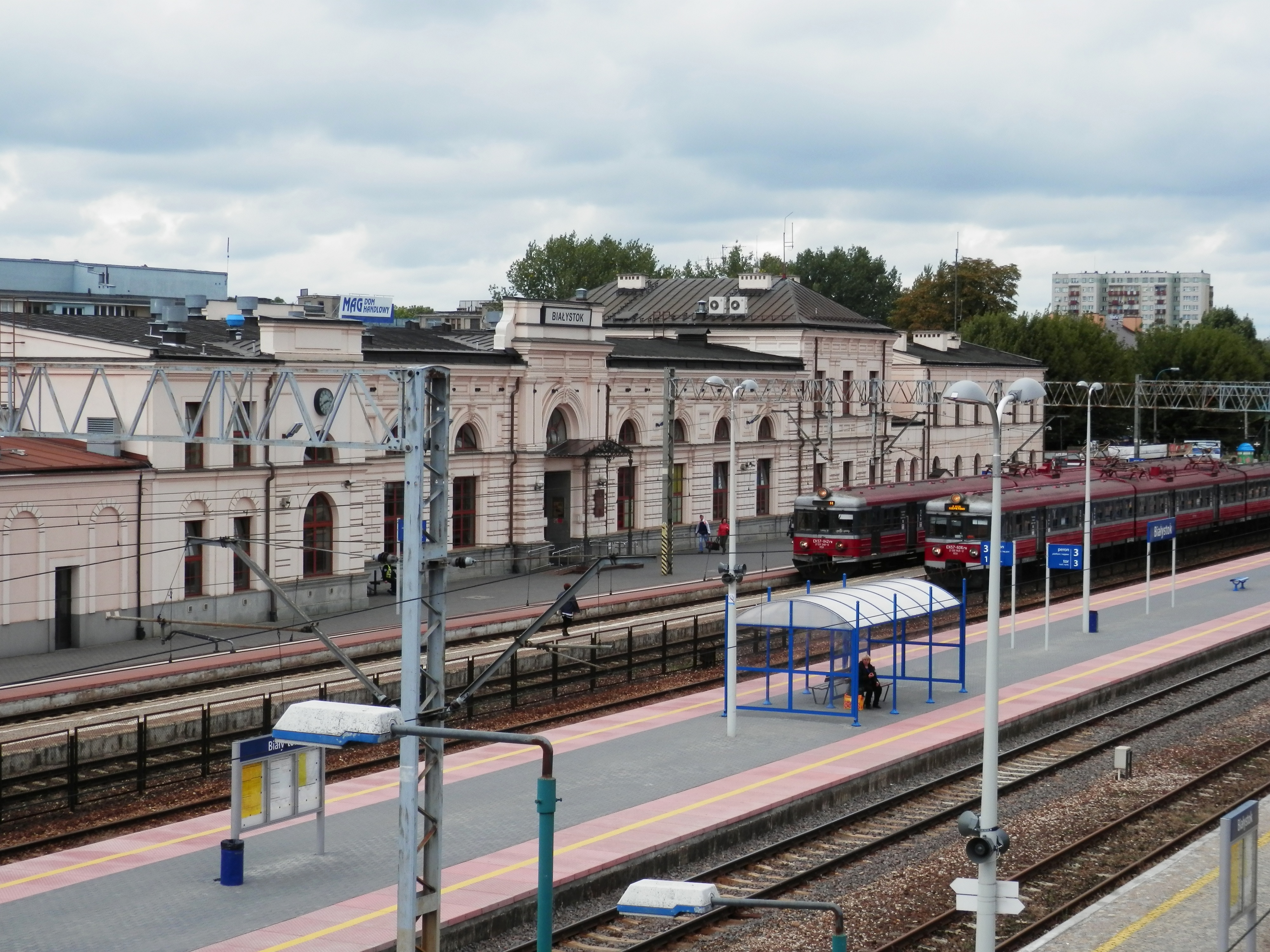 Main railway station (XIX century) in Białystok, Poland